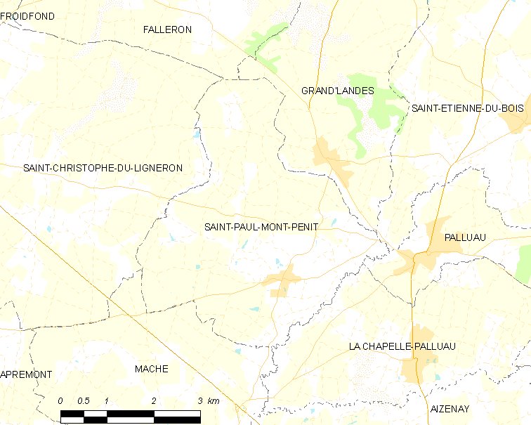 Map of French municipality Saint-Paul-Mont-Penit